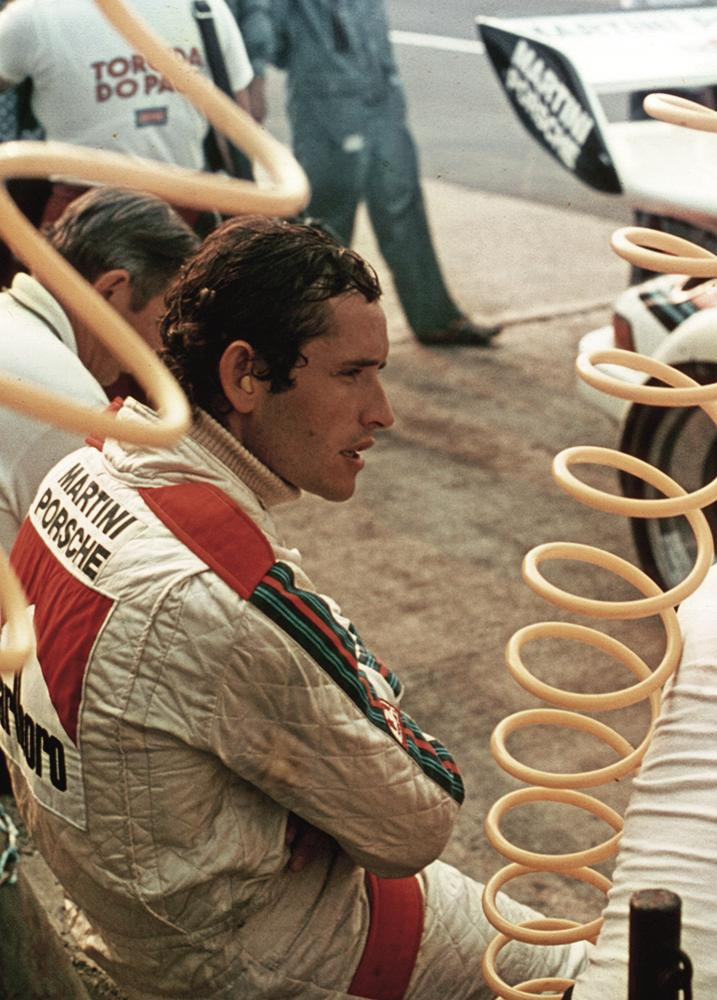 Jacky Ickx on the Pitlane Wall. The World Championship For Manufacturers 1976.